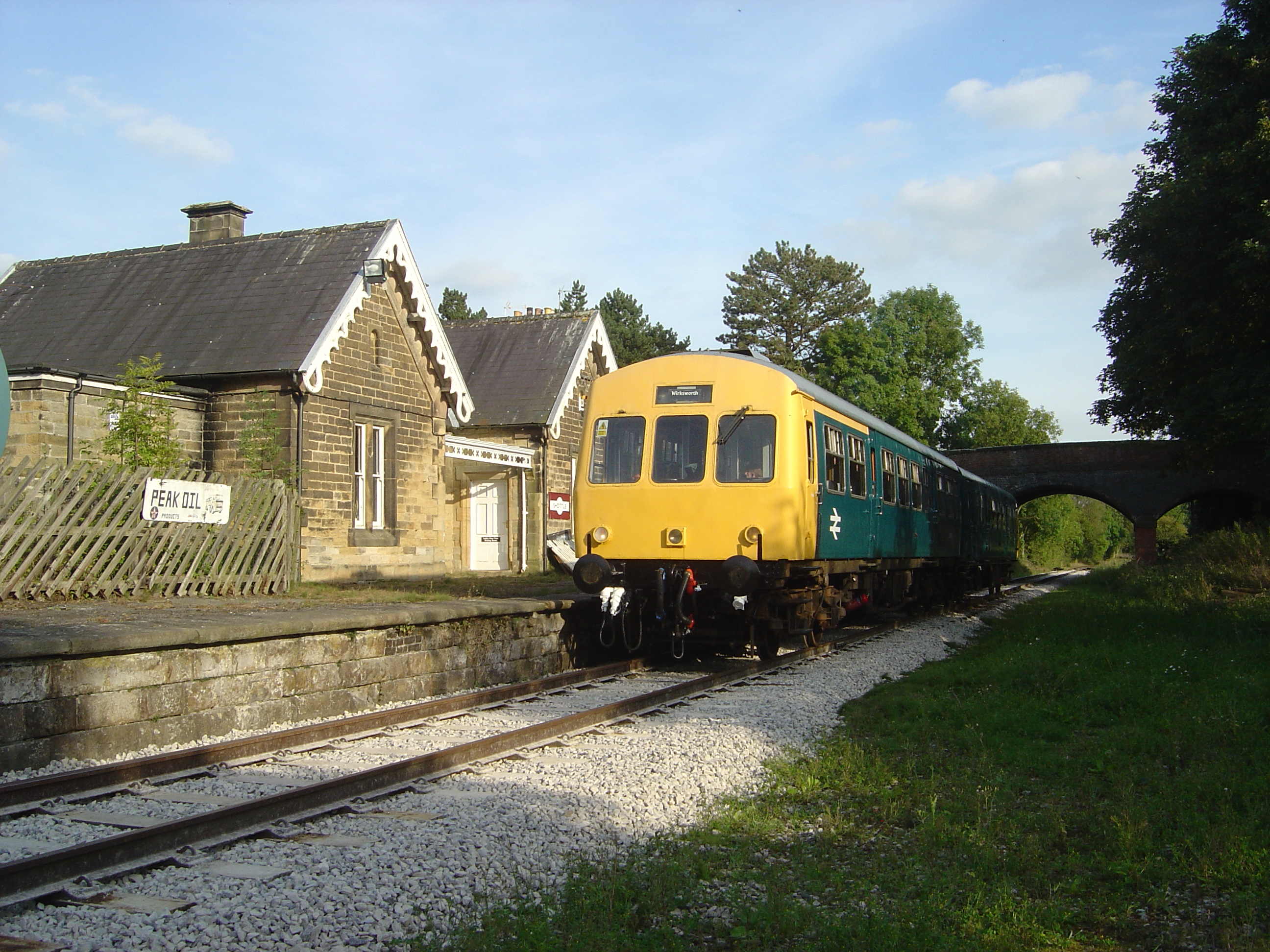 Metropolitan-Cammell Class 101's wait at Shottle station on line test-runs as the route is prepared for opening to the general public in 2010.